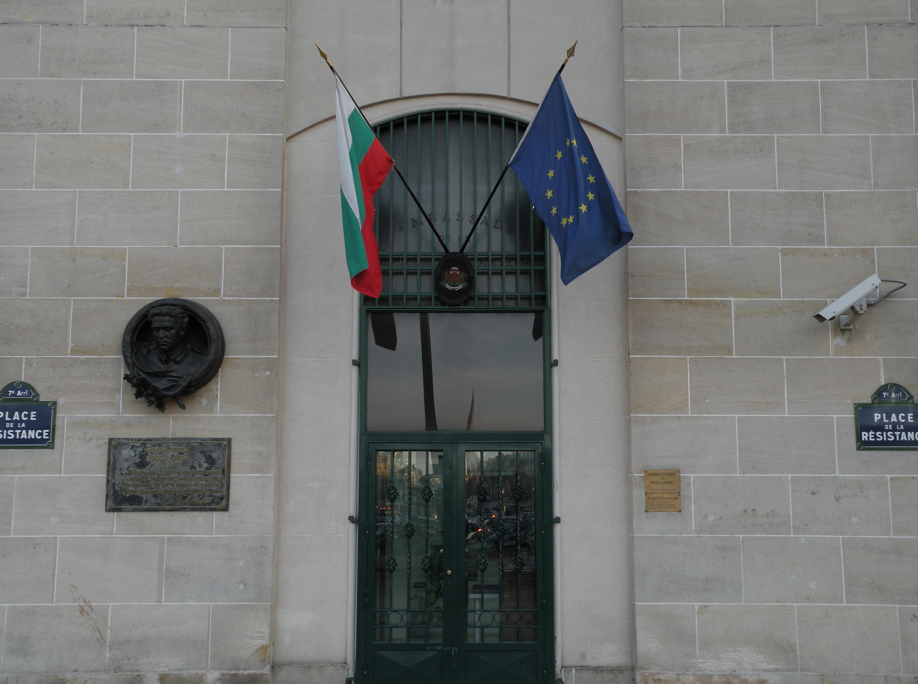 Bulgaria embassy in France, Paris